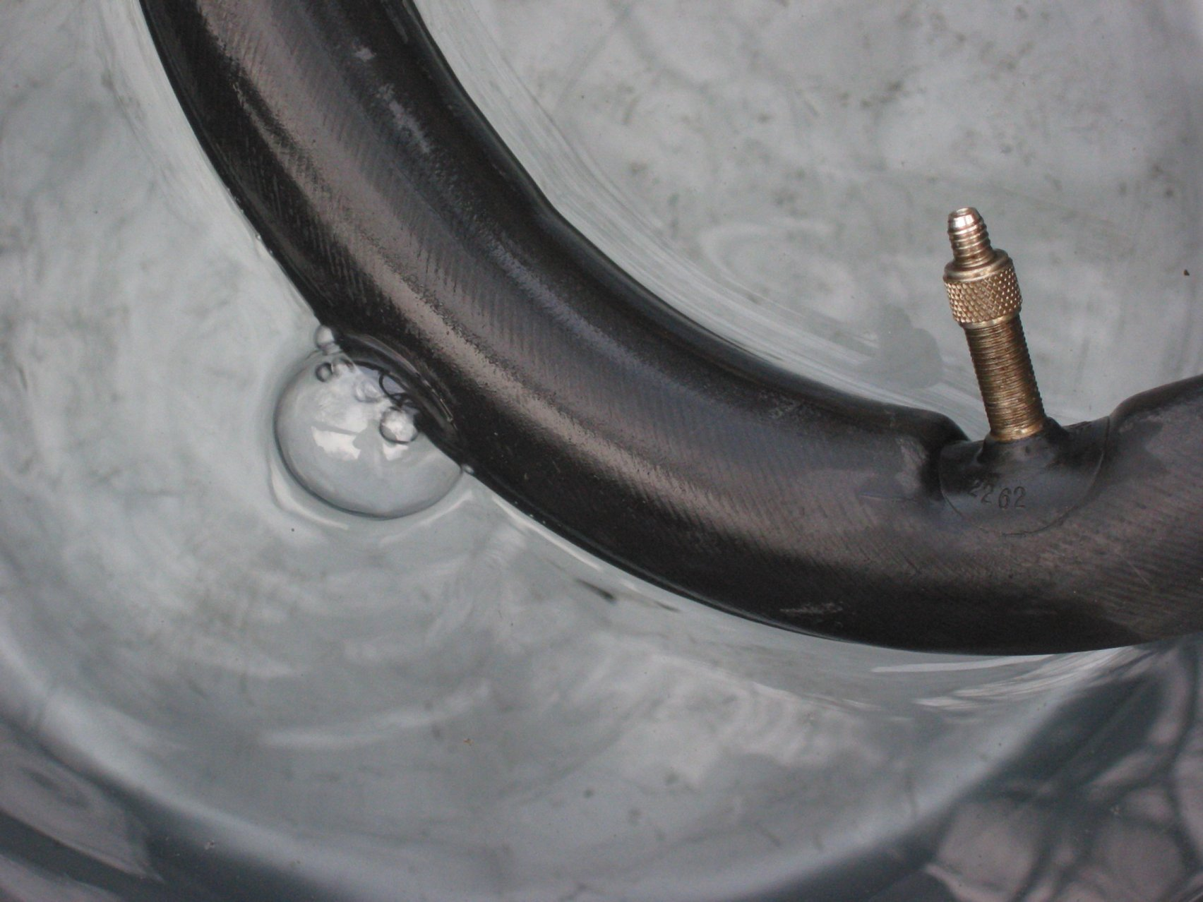 Bicycle tyre repair.